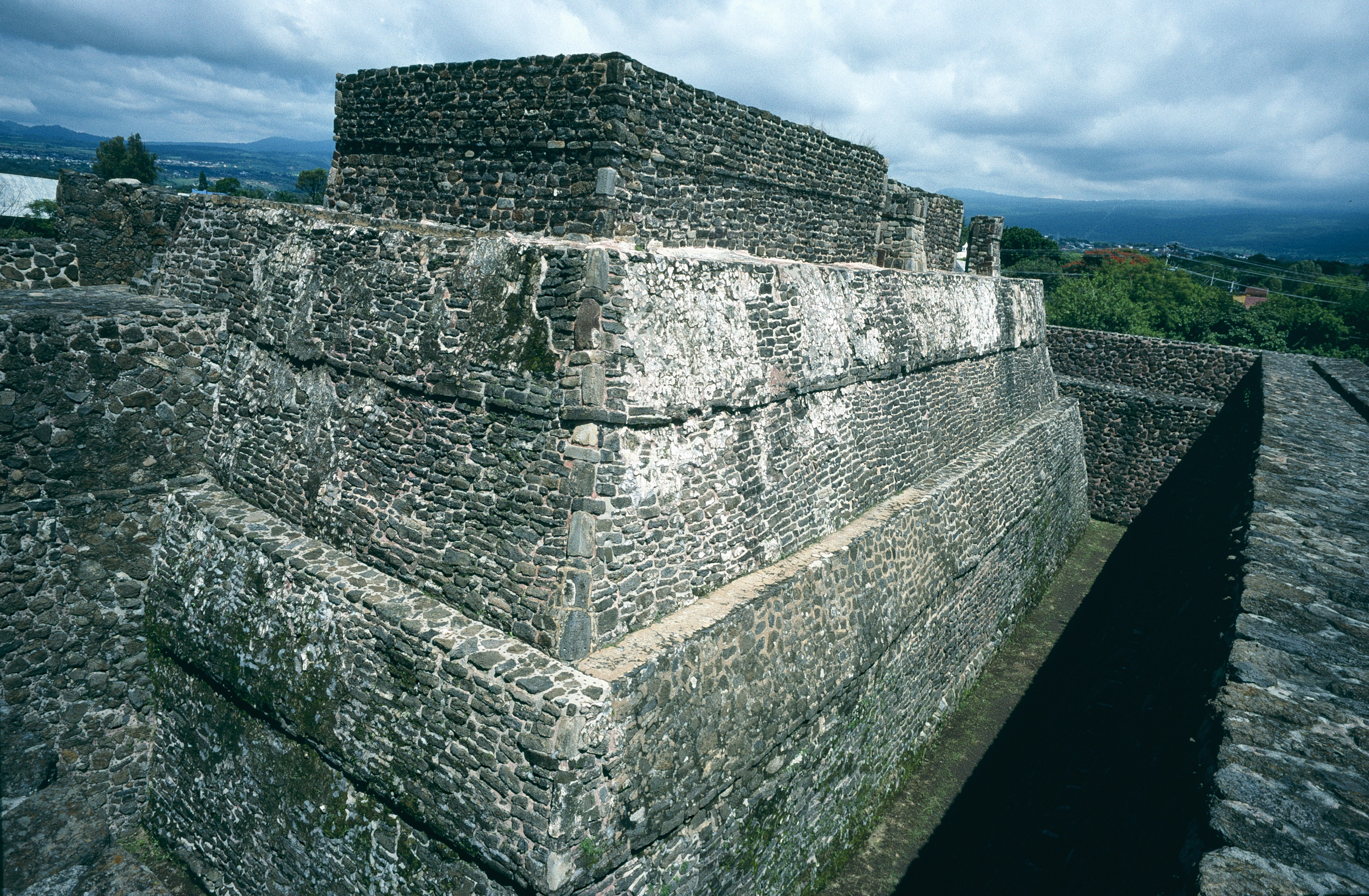 Teopanzolco, Cuernavaca, Morelos, Mexico: Main pyramid